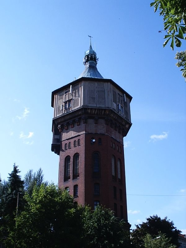 Water tower, Nauczycielska Street, Świdnica, Lower Silesian Voivodeship, Poland.